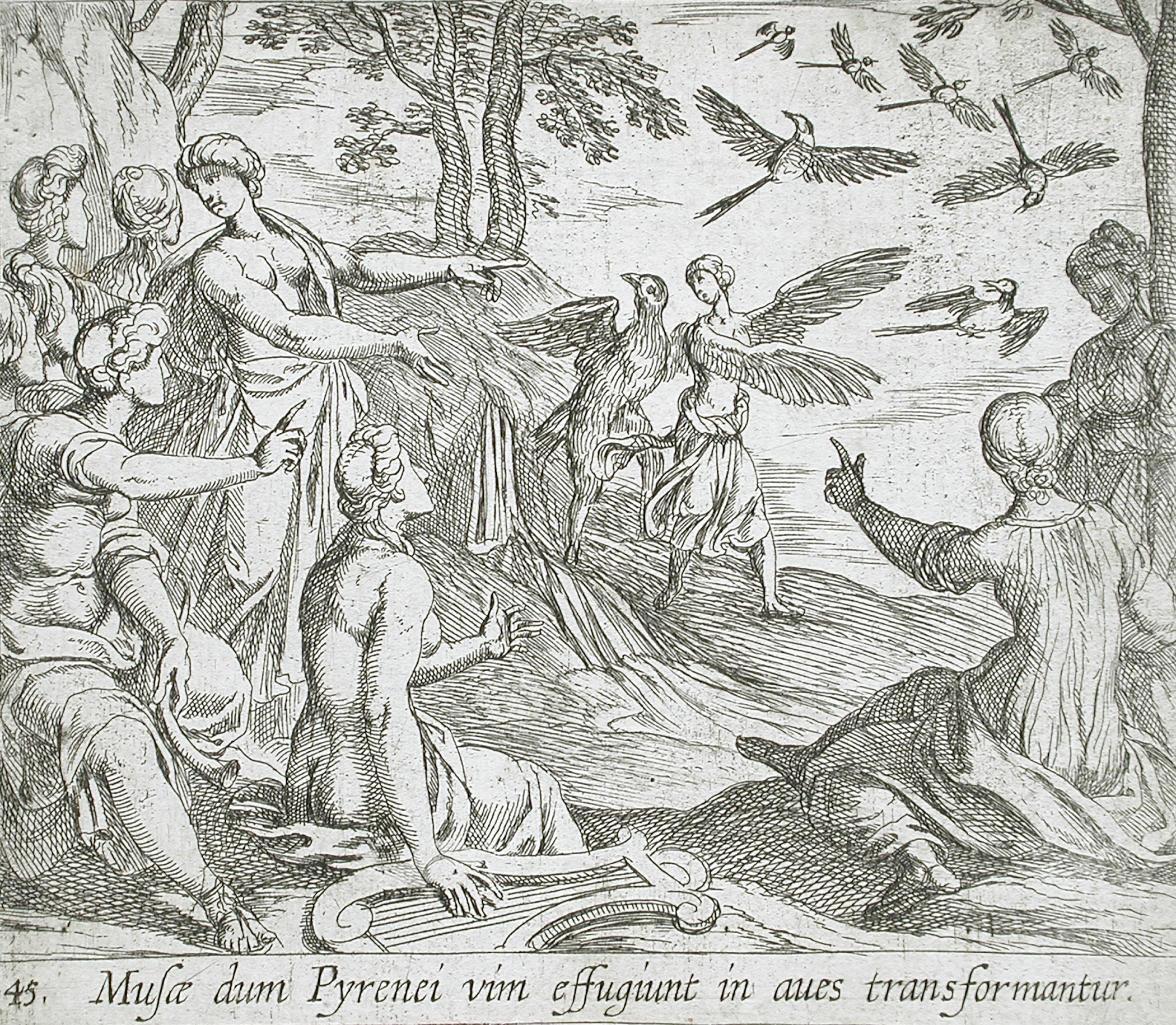 Italy, published 1606 Alternate Title: Musae dum Pyrenei vim effugiunt in aves transformantur Series: The Metamorphoses of Ovid, pl. 45 Edition: Second edition Prints; etchings Etching Los Angeles County Fund (65.37.129) Prints and Drawings